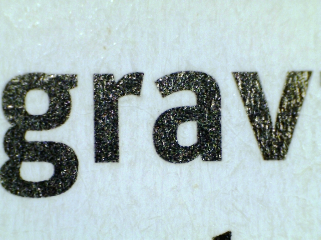 Flat prints are sharply outlined and rather homogeneously colored